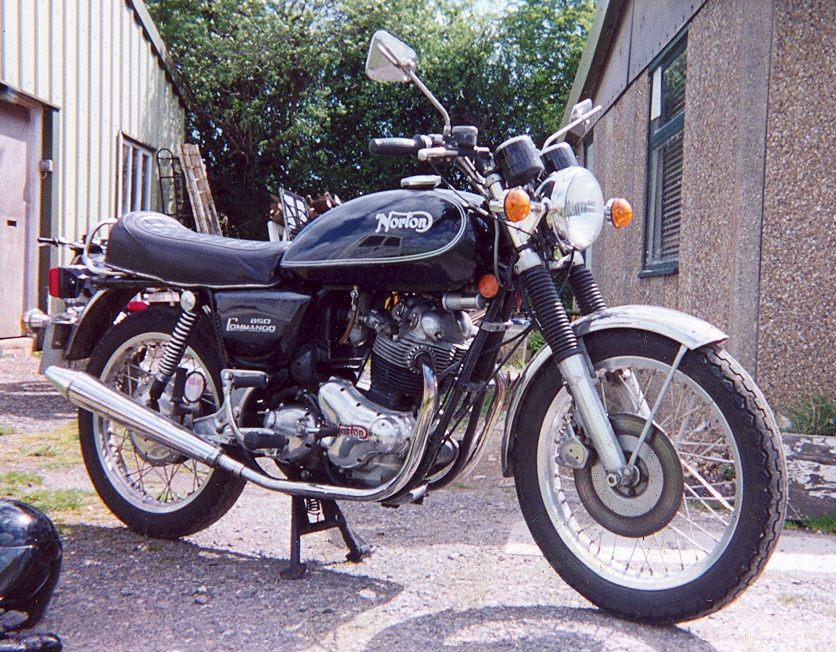 Norton Commando MKIIA, built September 1973 according to the manufacturer's plate. The motorcycle is missing the lower stay on the front mudguard and the silencers are not original, being the "pea-shooter" type fitted to earlier models. An after-market oil cooler is fitted between the front down tubes of the frame, in front of the engine.